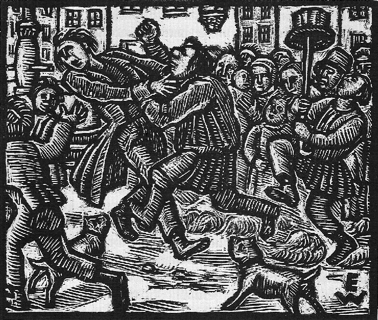 Jobst and Fridolin fighting